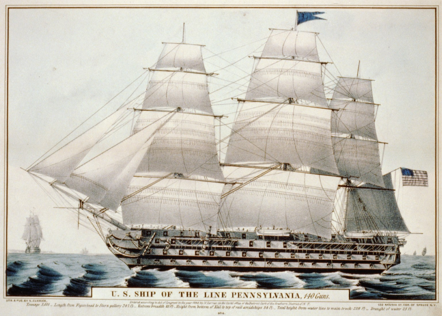 U.S. ship of the Line Pennsylvania, 140 guns. New York: Published by N. Currier. Currier & Ives. A size. Lithograph print, hand-colored. Currier & Ives : a catalogue raisonné / compiled by Gale Research. Detroit, MI : Gale Research, c1983, no. 6850